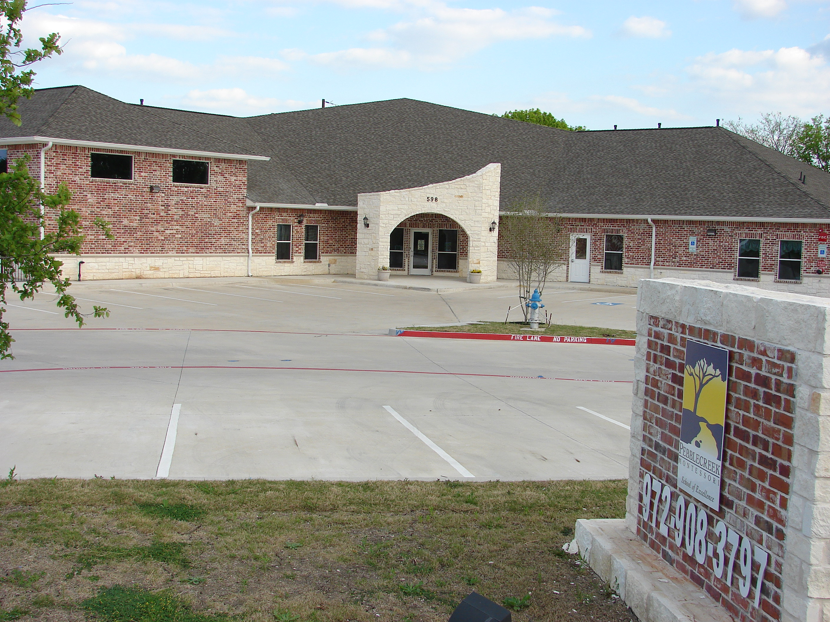 Pebblecreek Montessori elementary school in Allen, Texas.